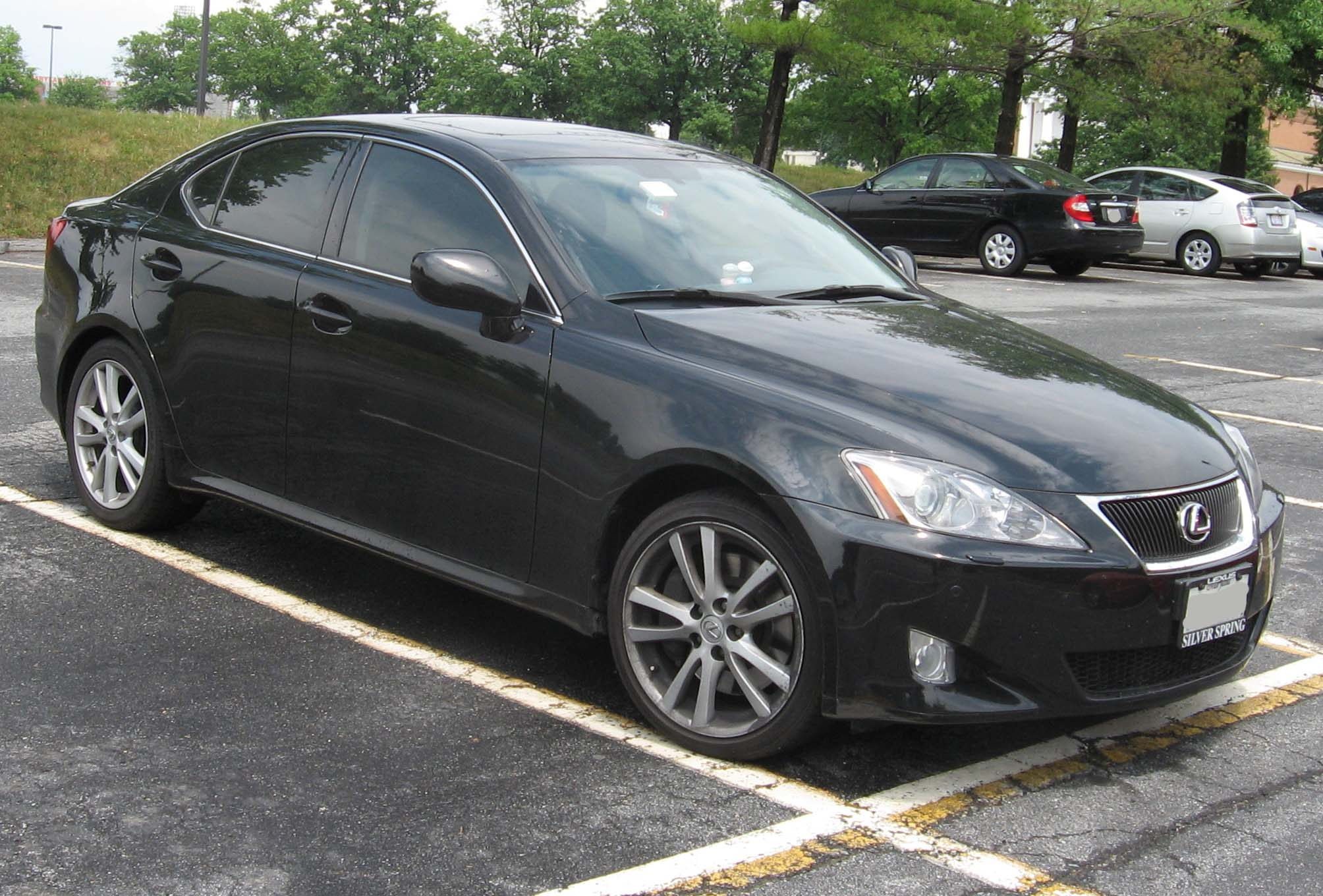 2006-2007 Lexus IS350 photographed in USA.